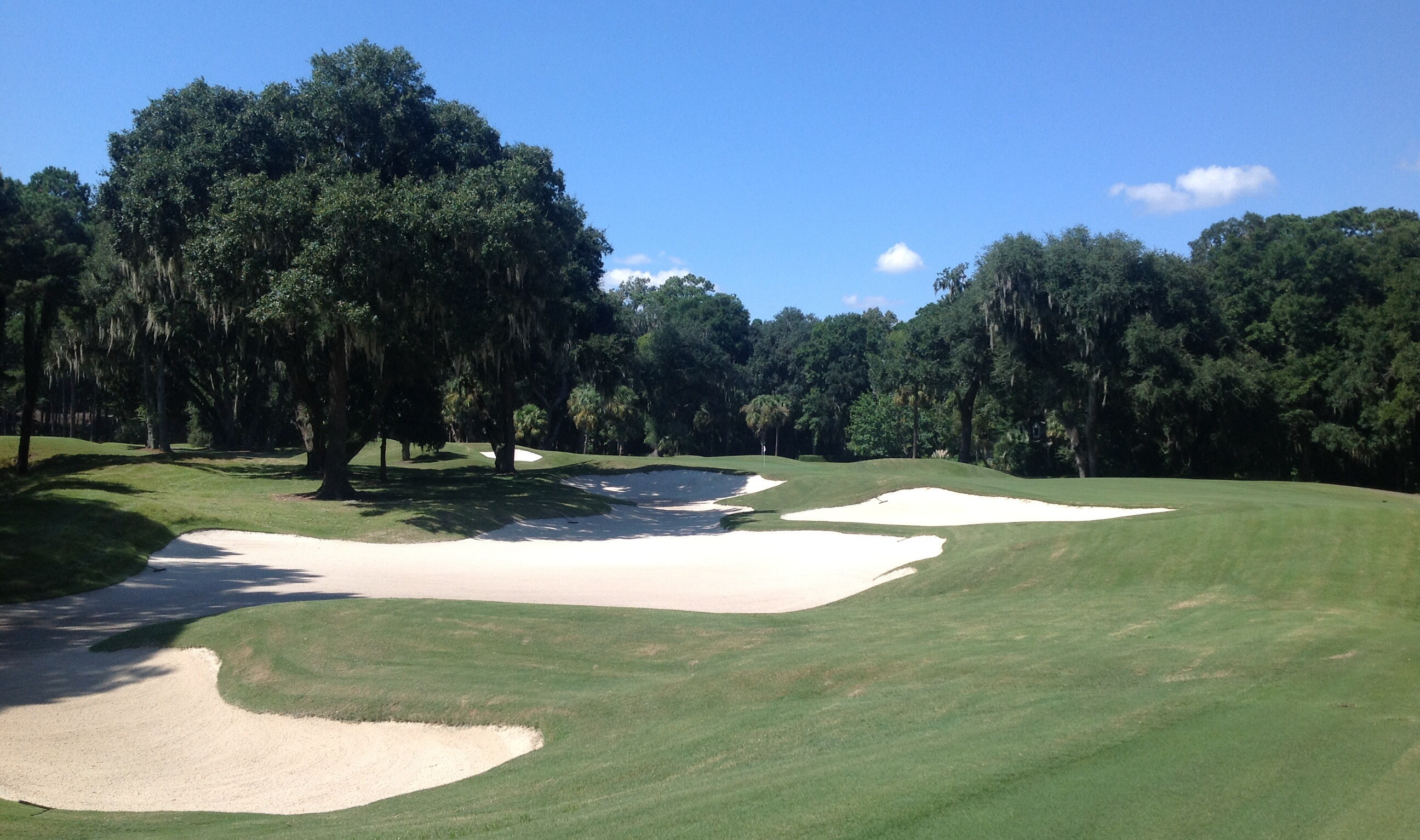 Callawassie Island Magnolia Two . . . Par 5 . . . Tom Fazio design